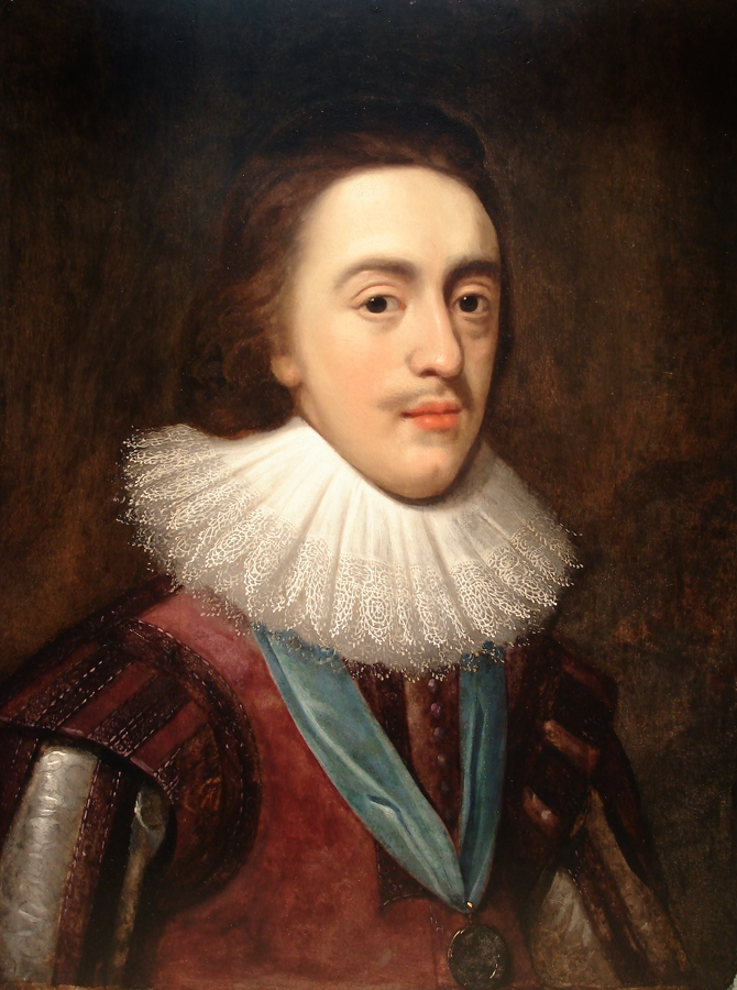 Charles I of England